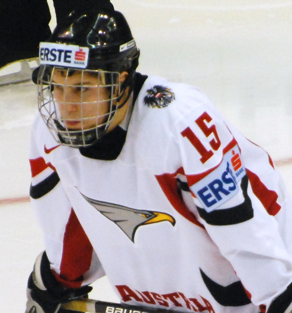 Konstantin Komarek during a game against Sweden at the 2010 IIHF World Junior Championships